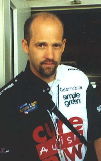 Anthony Edwards at the 2002 Indianapolis 500.